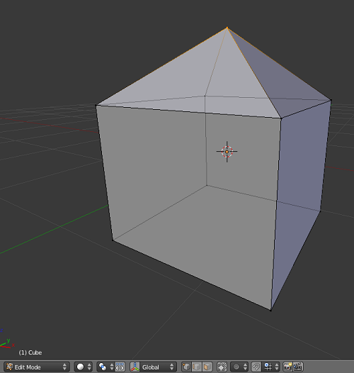 This is a screenshot of Blender 2.58a for the "Quickie Model" tutorial in Blender 3D: Noob to Pro.